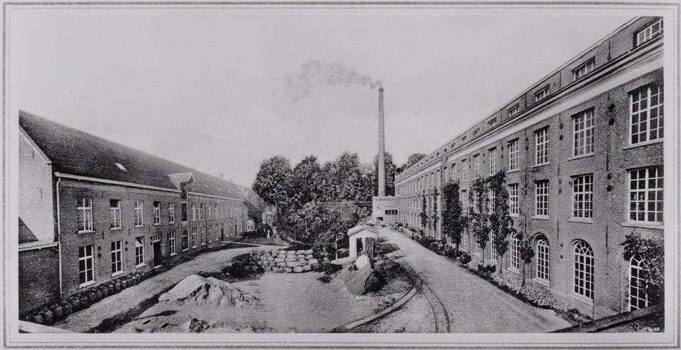 Wool factory Van Dooren & Dams, Tilburg Netherlands, 1917